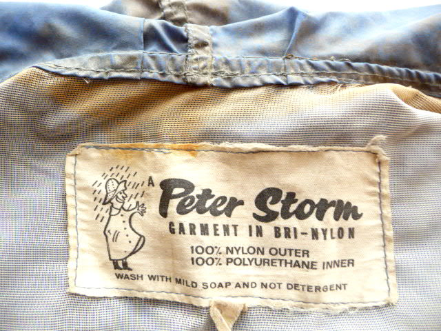 Image of an historic (circa 1970s) Peter Storm cagoule label showing artwork/logo